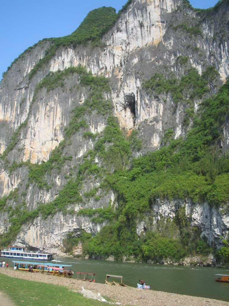 famous travel place in Gui Lin Yang Shuo,meaning is 9 horse painted on a mountain.